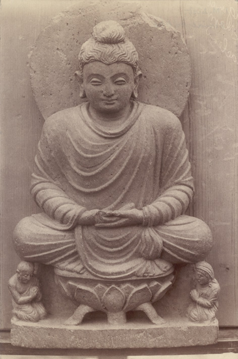 Statue of a Buddha seated on a lotus throne, Swat Valley Photograph a statue of Budda sat on a lotus throne taken by Alexander .E Caddy in 1896. The ancient kingdoms of Udyana (Swat) and Gandhara (Peshawar), ruled by the Kushans from the first century AD, corresponded fairly closely with the northern part of the North West Frontier Province. The sculpture of the area, referred to as Gandharan, was influenced by Graeco-Roman elements and this influence can be seen in the draped clothing the figure wears, and in the naturalistic modelling of the body. In 1895 Surgeon-Major L.A.Waddell went to the Swat valley to undertake archaeological research and met with, Major Deane, the Chief Political Officer. Deane was a well-known archaeologist, who for many years has been zealously and most successfully exploring the Buddhist remains of Peshawar and its frontier countries. Concerning the meeting between the two, Waddell stated at the time that: "To him I explained the object of my mission, and pleaded the need in which the Indian Museum of Calcutta stood of specimens of Buddhist sculpture of the Gandhara type. Major Deane kindly promised his aid, and he generously said that he would make over to me all the numerous sculptures found in the Swat Valley, of which he had already got possession." The sculpture pictured here was one of those transferred.